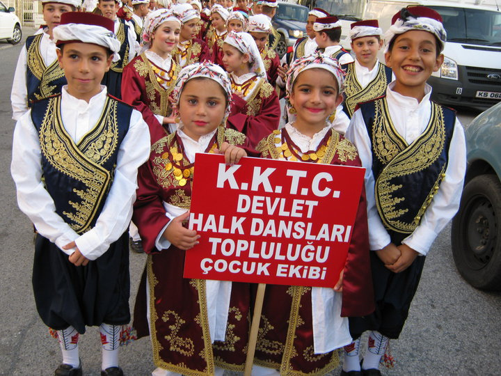 Turkish Cypriot child folk dancers, belonging to the State Folk Dances Group.